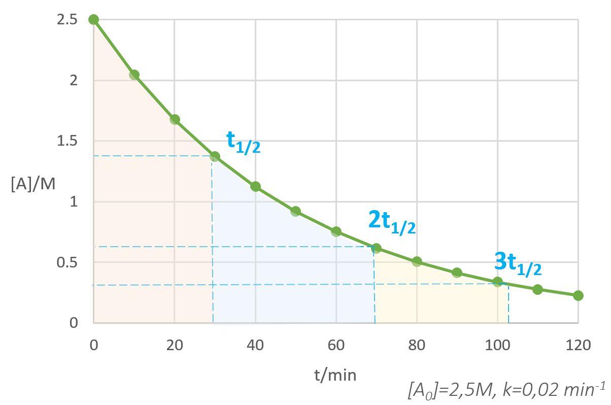 Half-life of first order reaction.